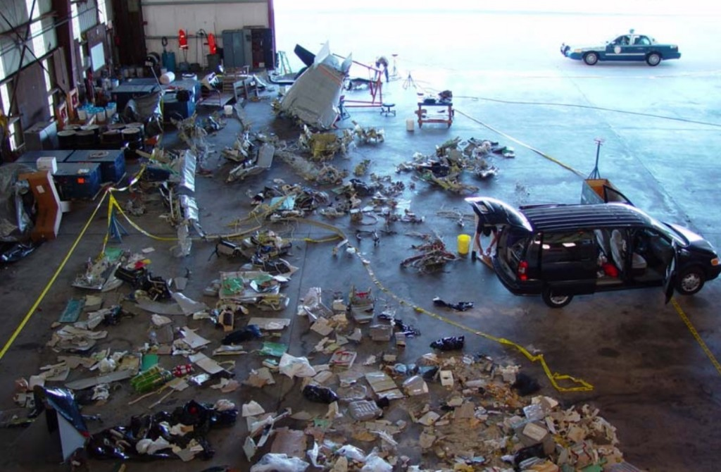 Wreckage of Colgan B1900D N240CJ Laid Out